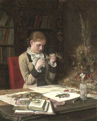 The Botanist